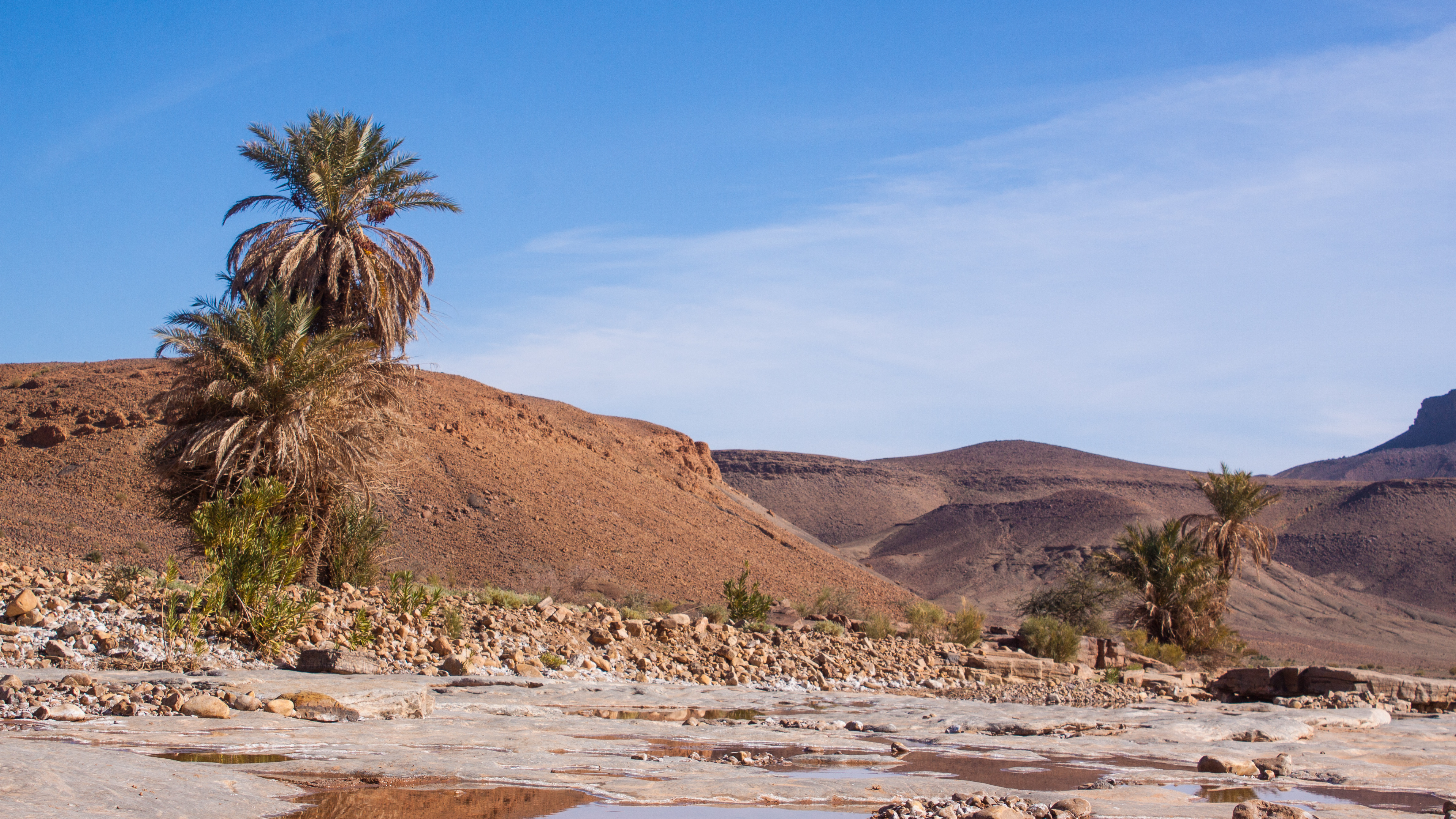 I like the view then i take it . This is an image with the theme "Play" from: Morocco